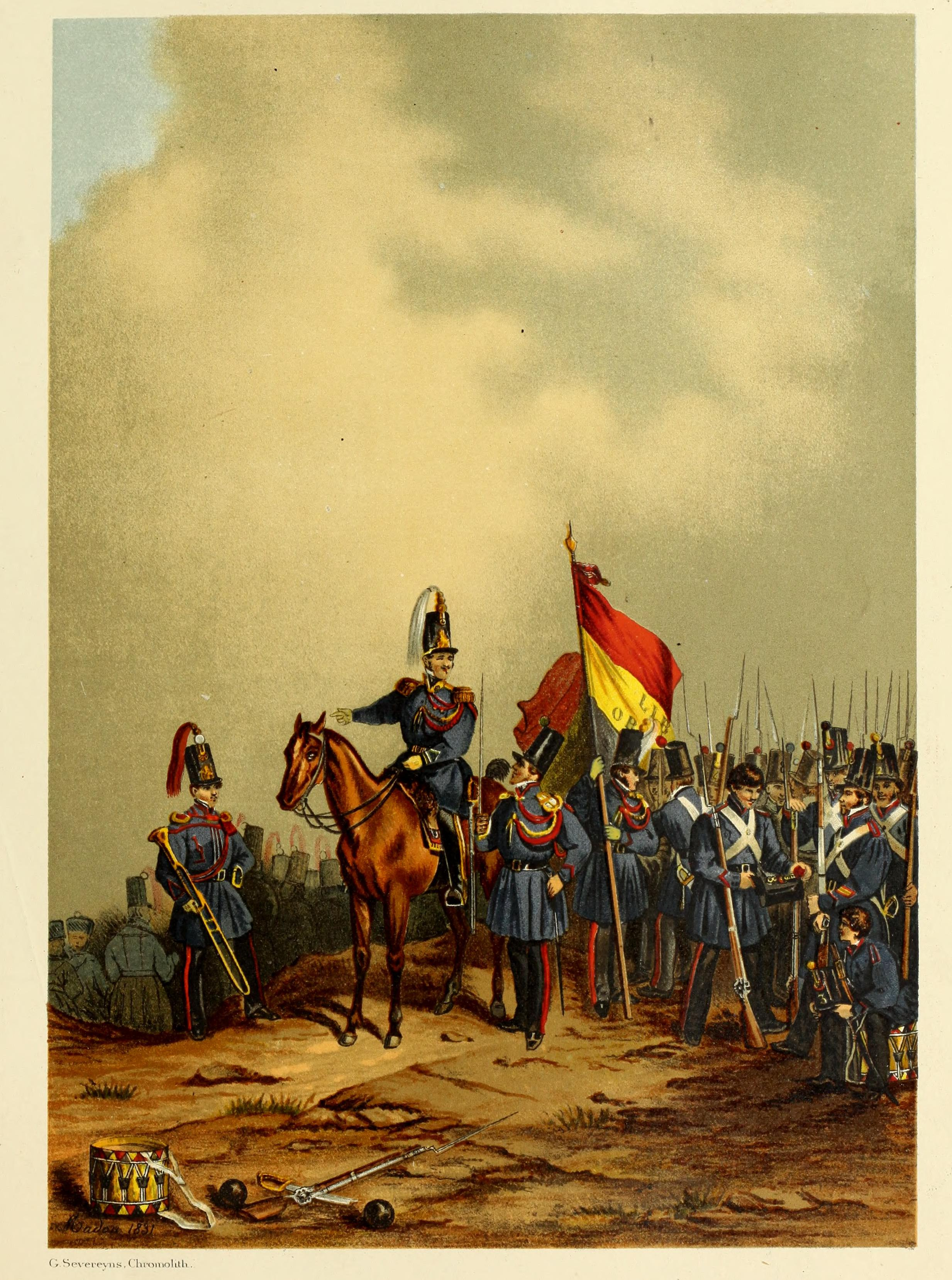 Title: Bruxelles à travers les âges Year: 1884 (1880s) Authors: Hymans, Louis Salomon, 1829-1884 Hymans, Henri, 1836-1912 Hymans, Paul, 1865-1941 Subjects: Publisher: Bruxelles : Bruylant-Christophe Text Appearing Before Image: ' Text Appearing After Image: LA GARDE CIVIQUE EN 1831 d'après une aquarelle de Madou.